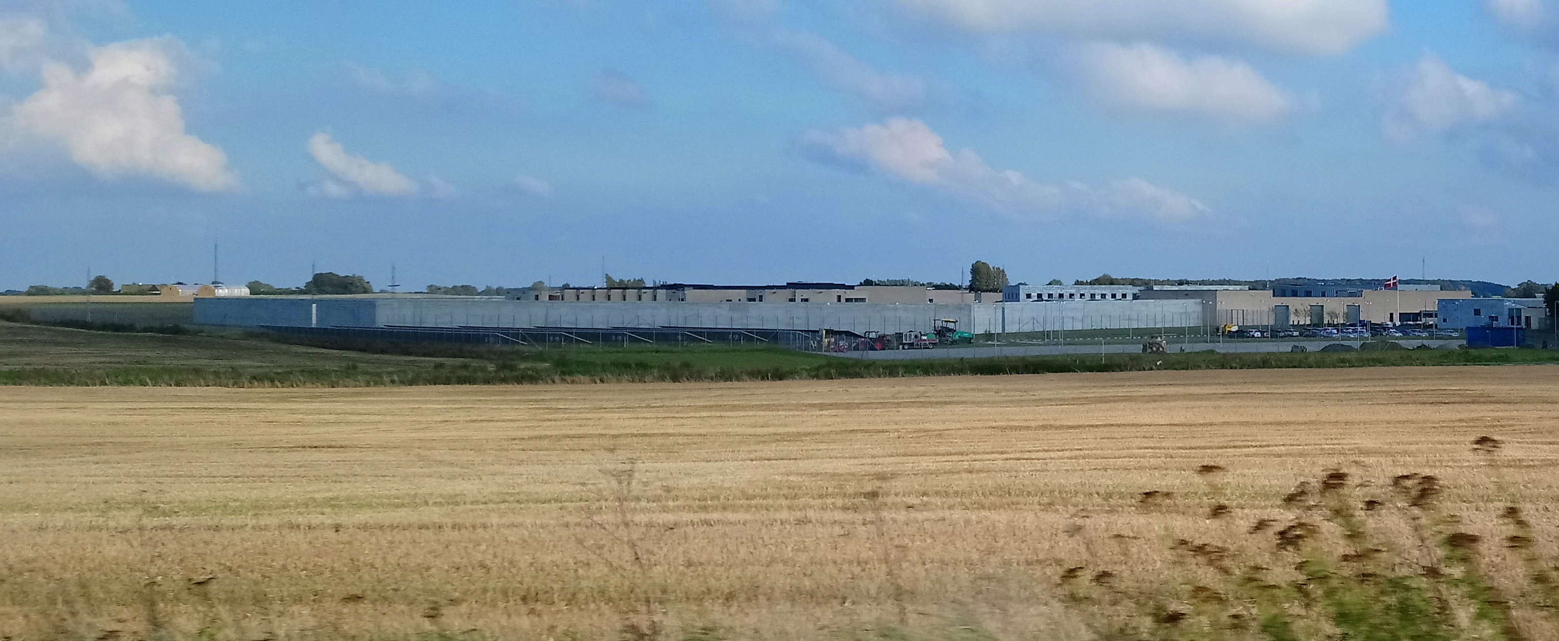 Storstrøm Fængsel (prison) on northern Falster, Denmark in 2017